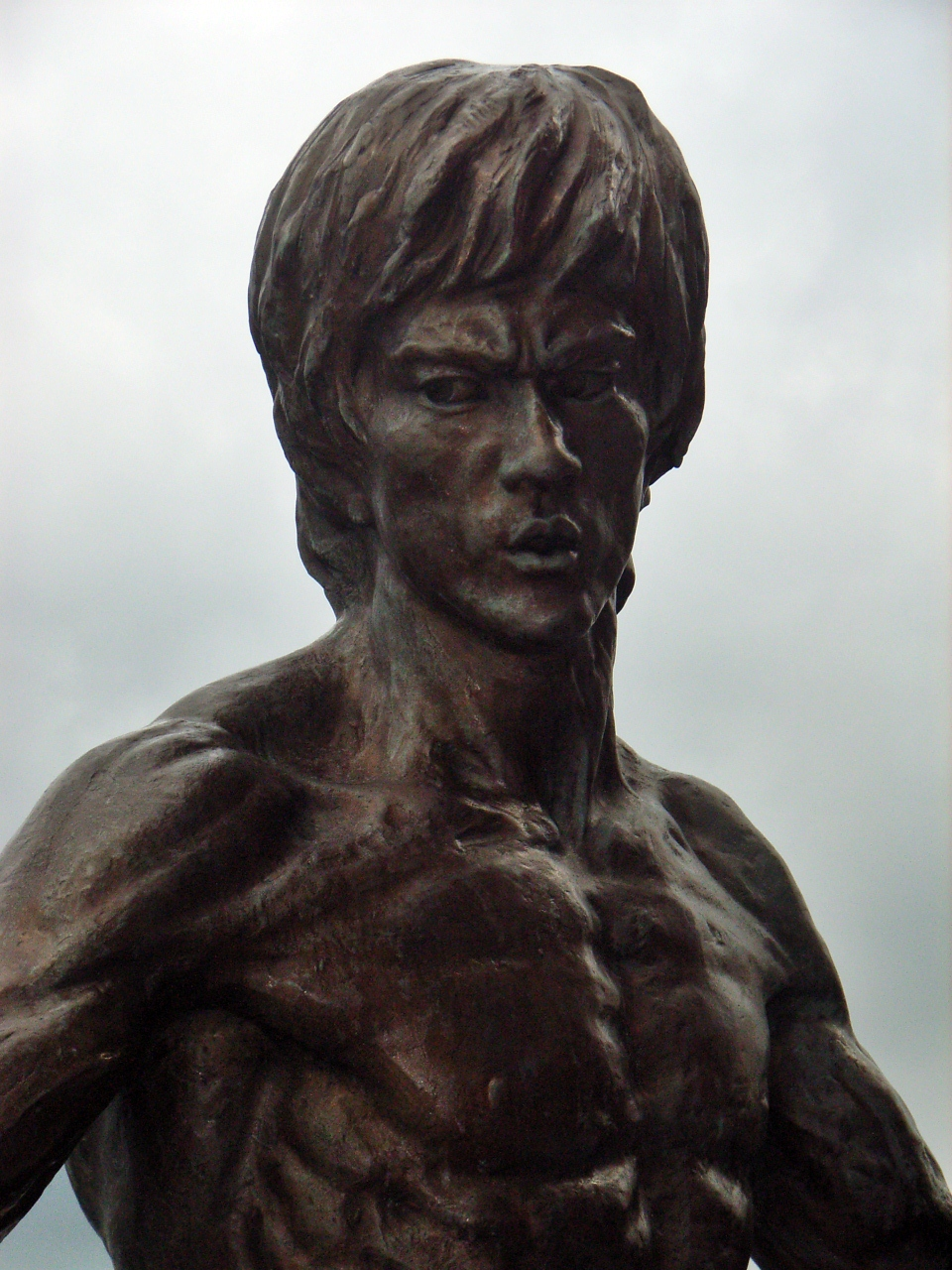 Statue of the movie star Bruce Lee on the Avenue of Stars of Hong Kong